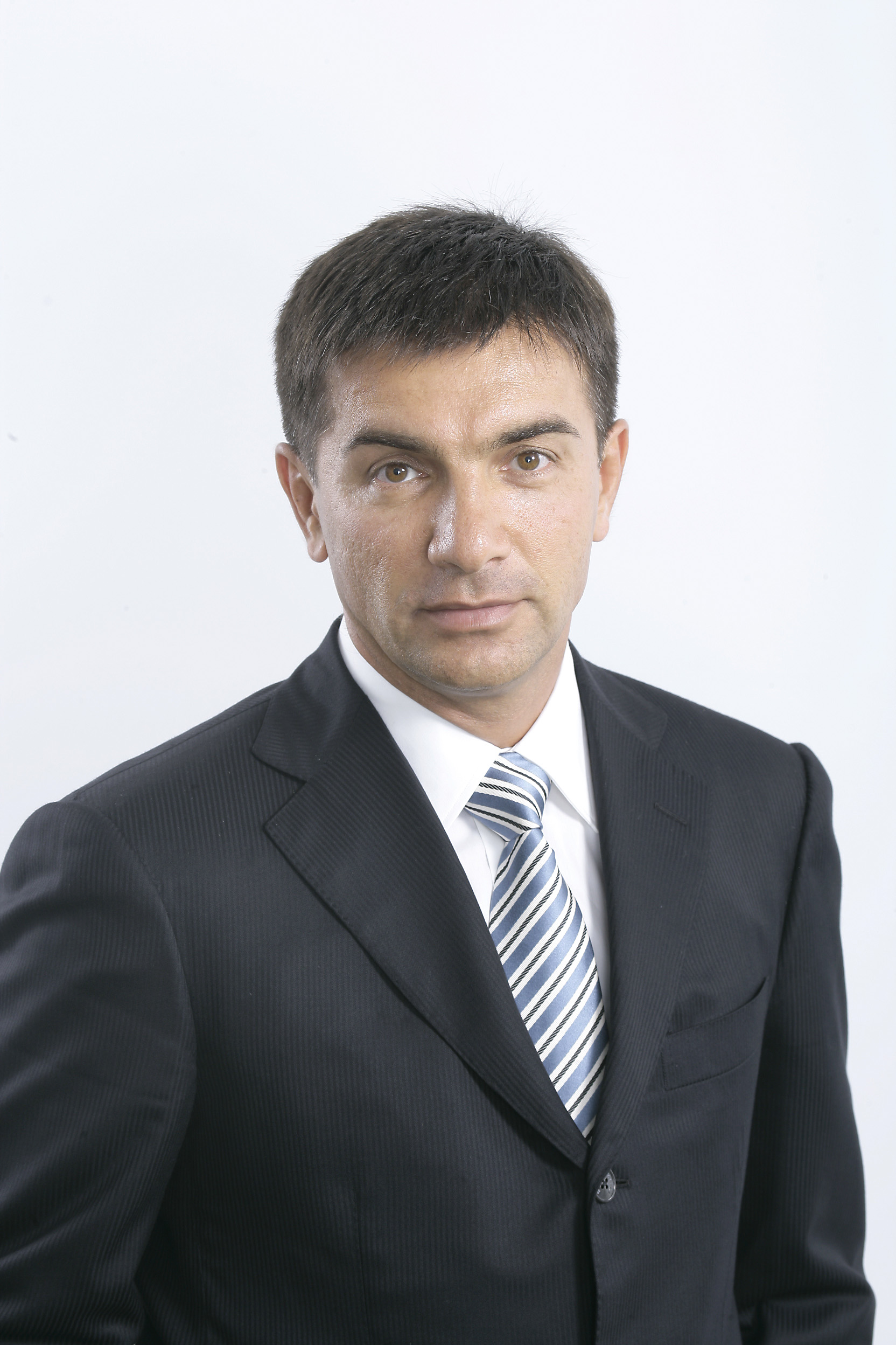 Photo of Alexey Ustaev, President of Viking Bank, Russia.